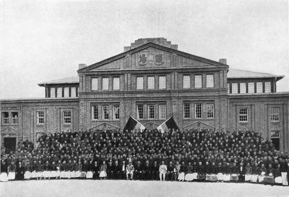 The Re-opening of Parliament on August 1st, 1916, after three years of dictatorial rule.